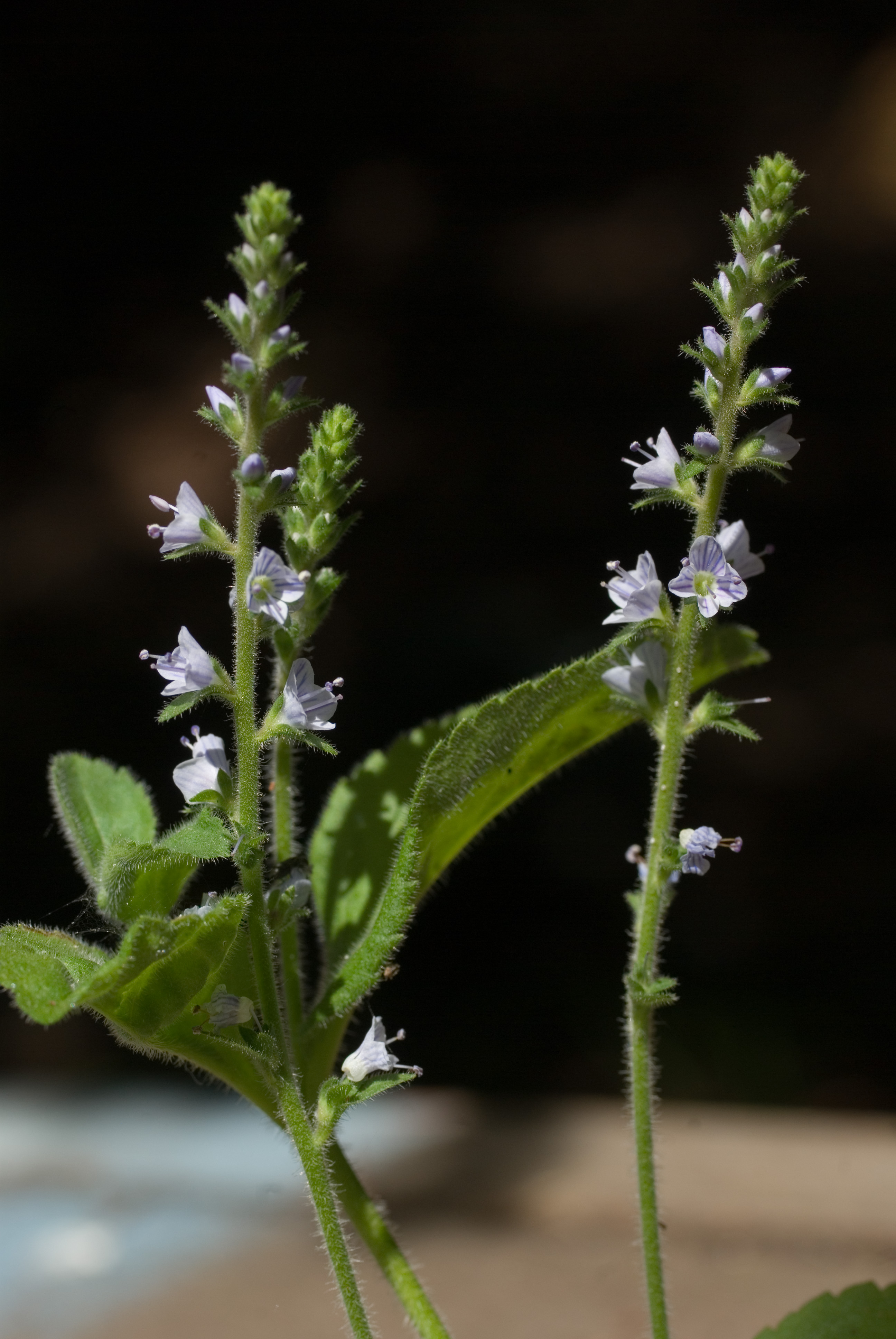 photo image of Common Gypsyweed or Veronica officinalis